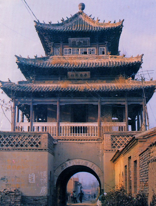 Historic site picture